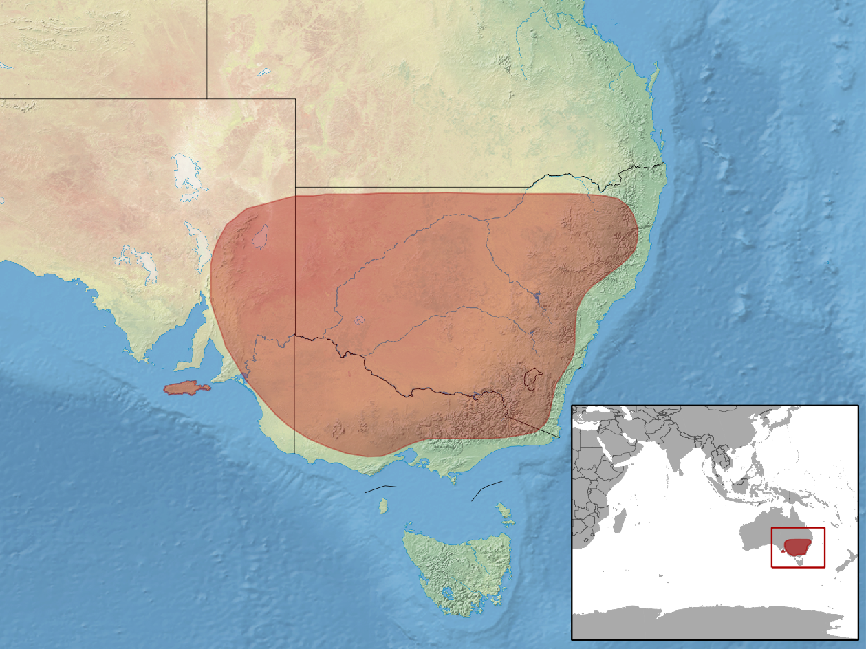 geographic distribution of Hemiergis decresiensis